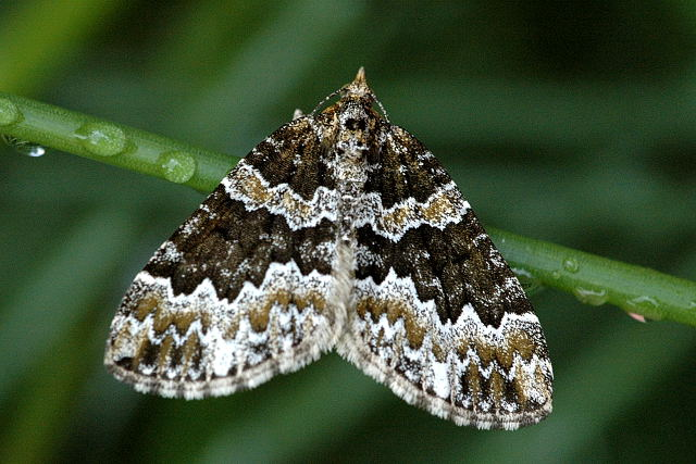 Picture taken in Commanster, Belgian High Ardennes . Species: Electrophaes corylata